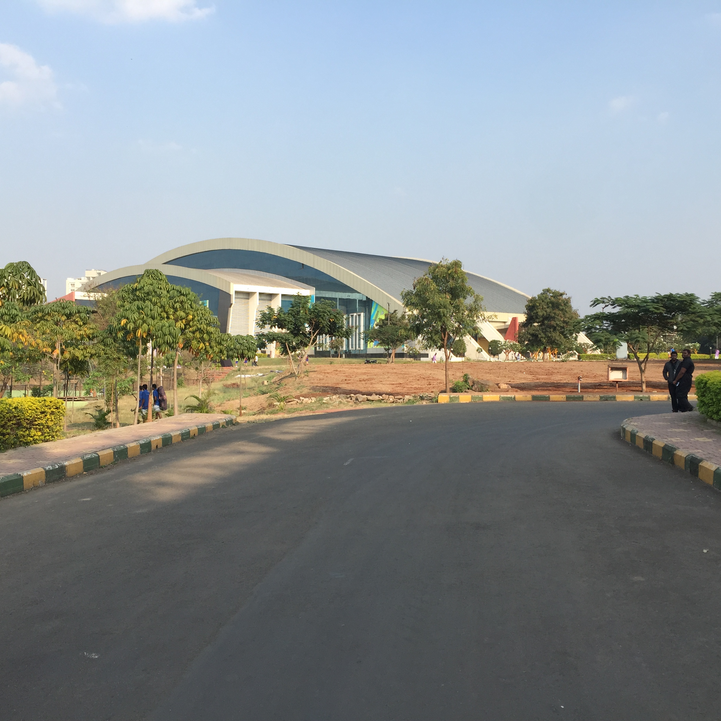 Shree Shiv Chhatrapati Sports Complex badminton arena